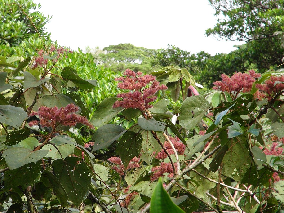 Heliocarpus sp, probably Heliocarpus americanus (or Heliocarpus appendiculatus). - Costa Rica, Monteverde Cloud Forest Reserve, Selvatura hanging bridges walkway, ca 1600 m.